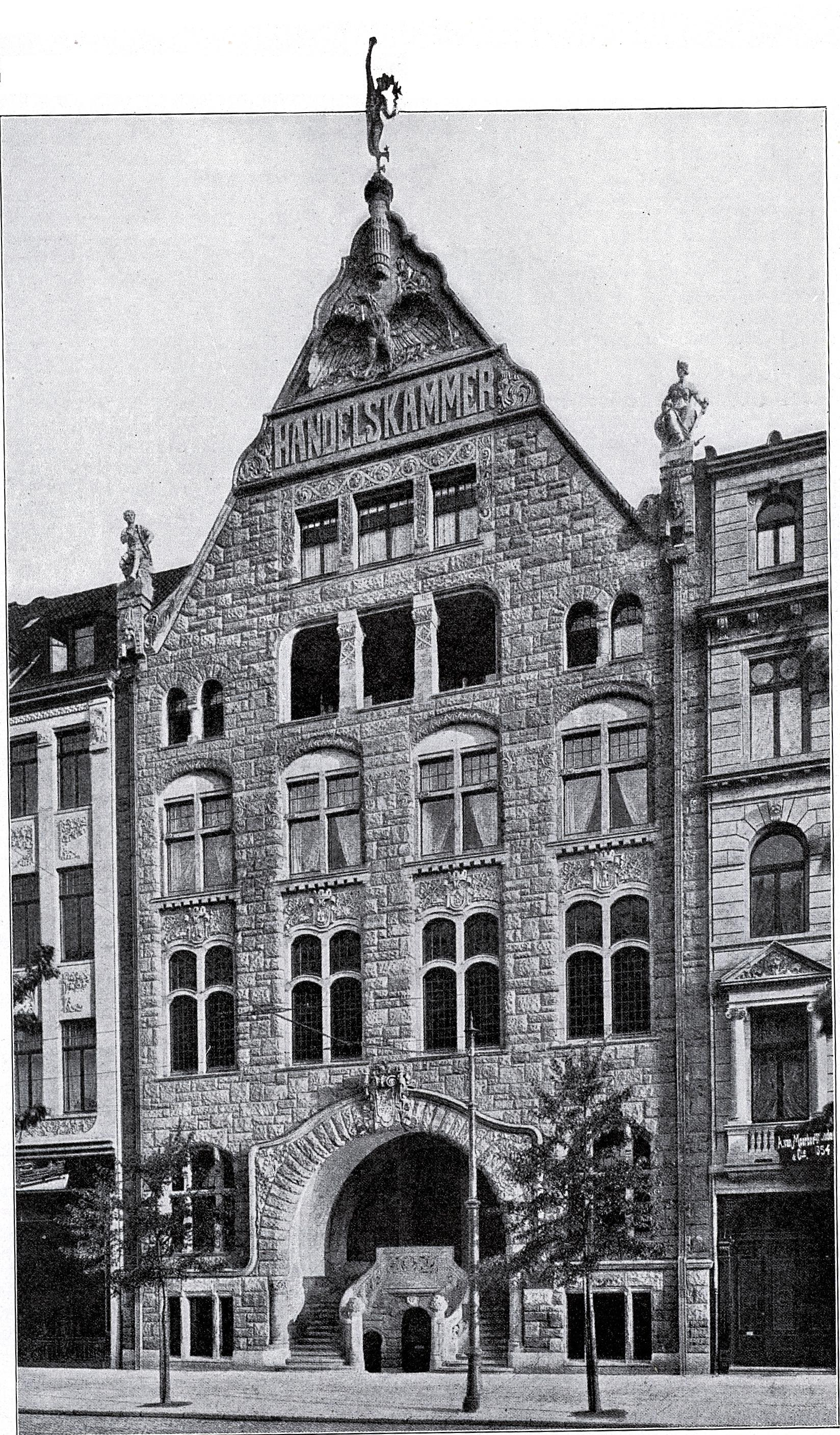 Haus der Handelskammer an der Graf-Adolf-Straße in Düsseldorf, von Architekt Hermann vom Endt Düsseldorf.jpg